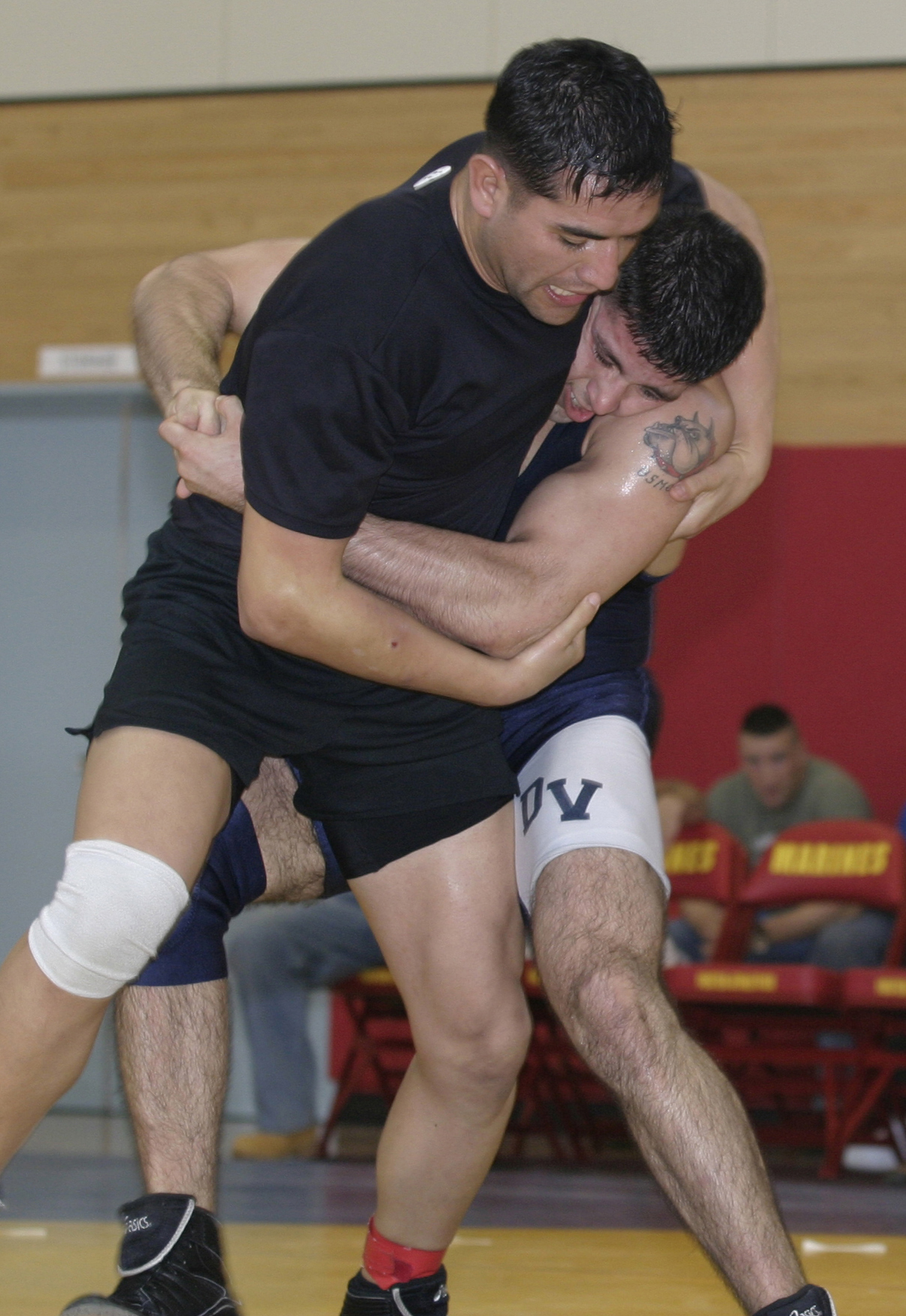 Two wrestlers clinching with one getting the back.